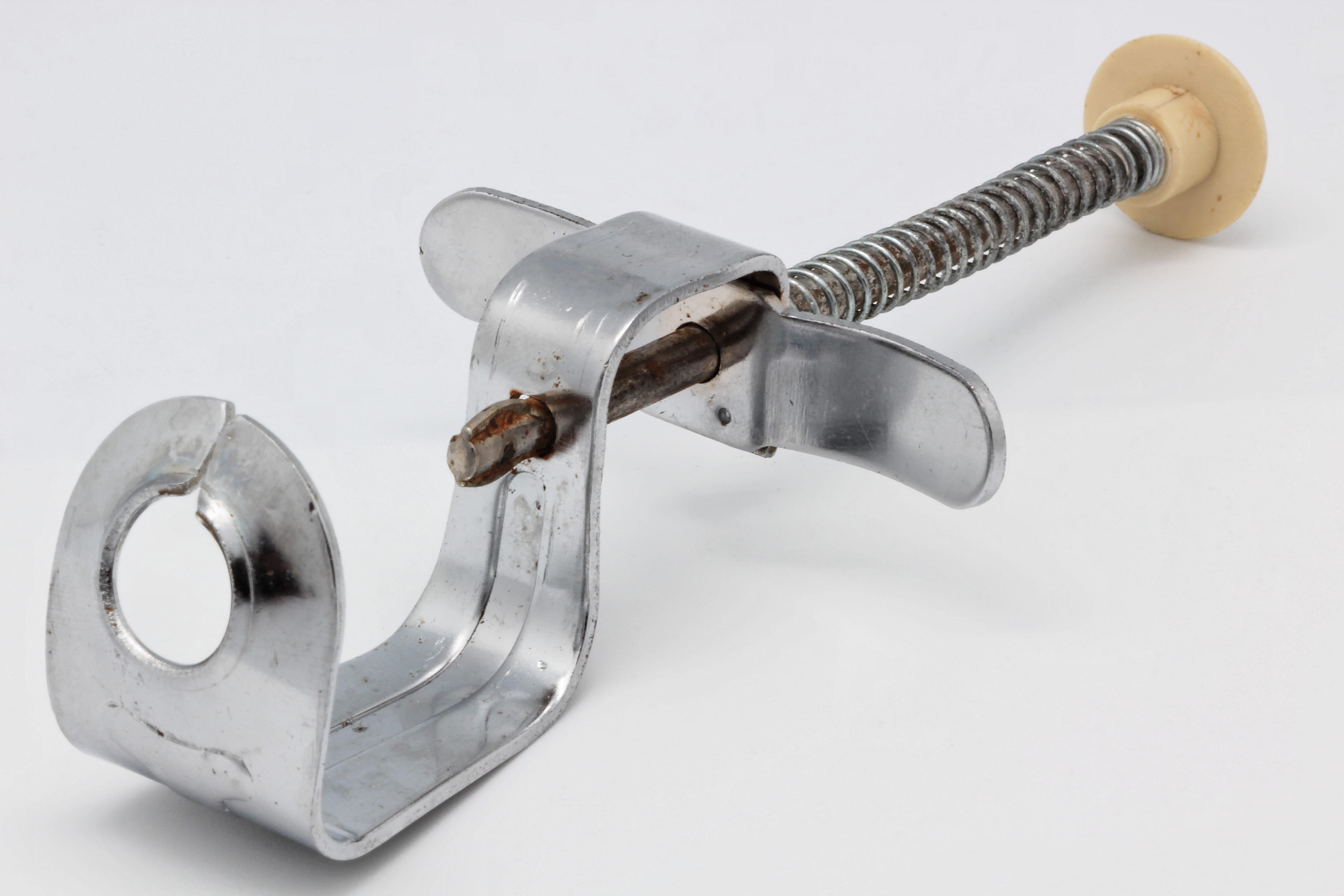 Cherry pitter